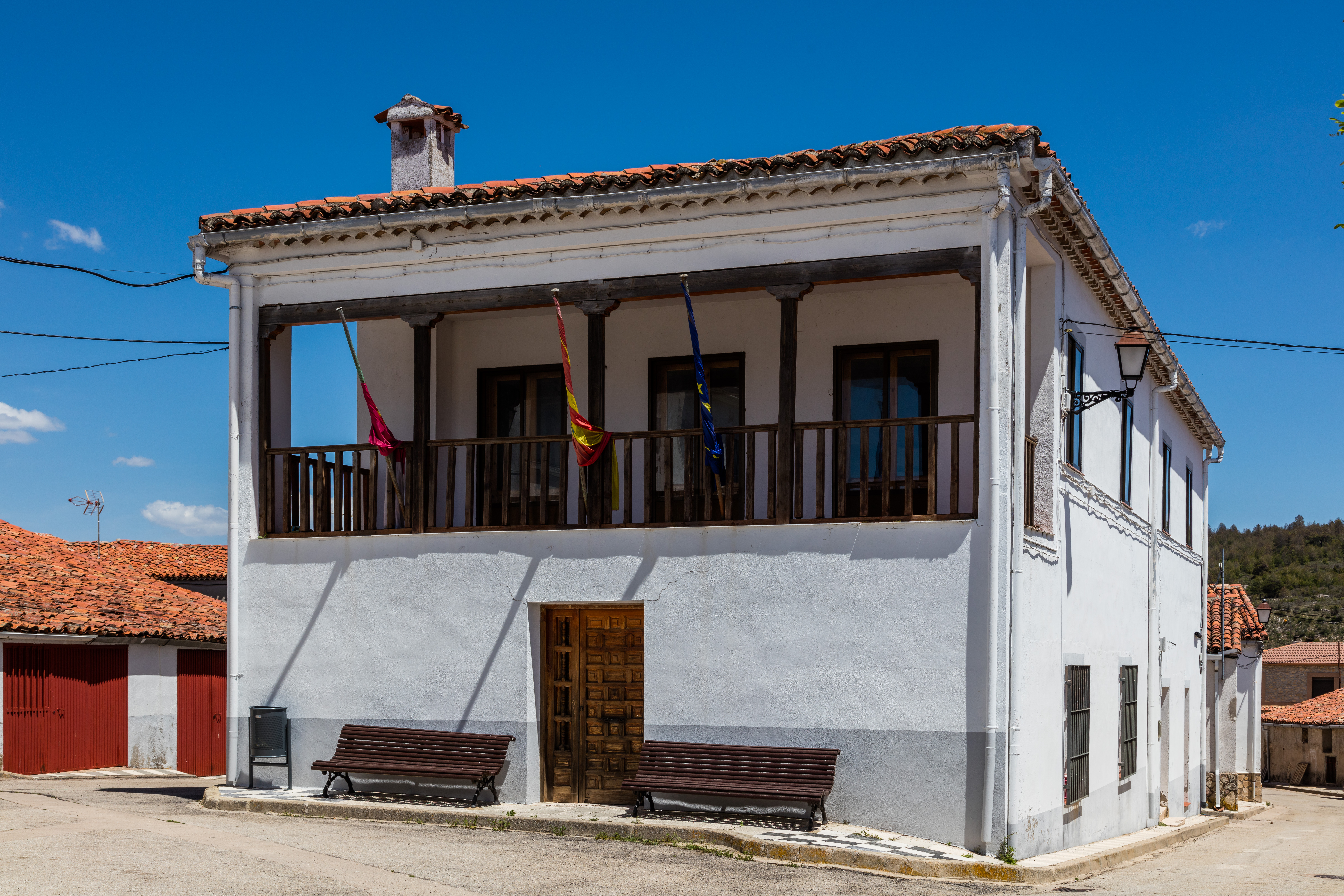 Town hall, Masegosa, Cuenca, Spain